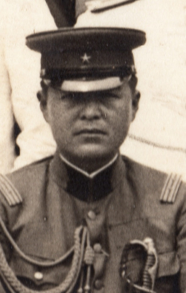 Major General Yasushi Inoue